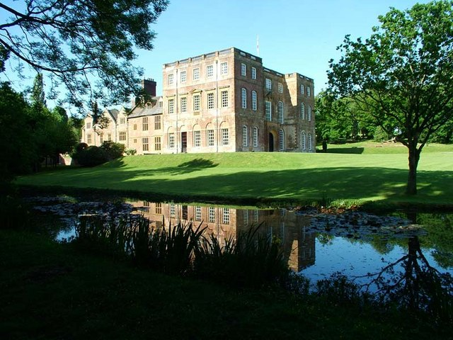 Halswell House, near to Goathurst, Somerset, Great Britain. William & Mary mansion now used as a wedding venue